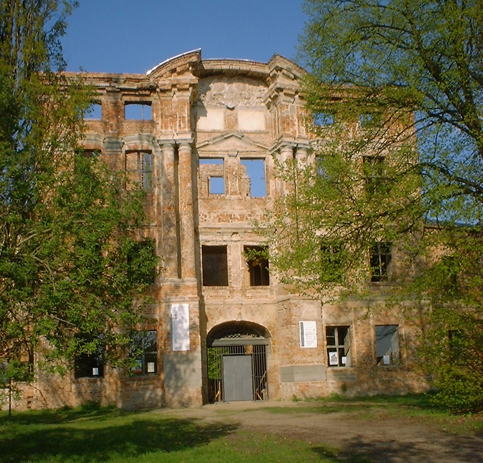 Ruins of the Palace in Dahme in Brandenburg, Germany